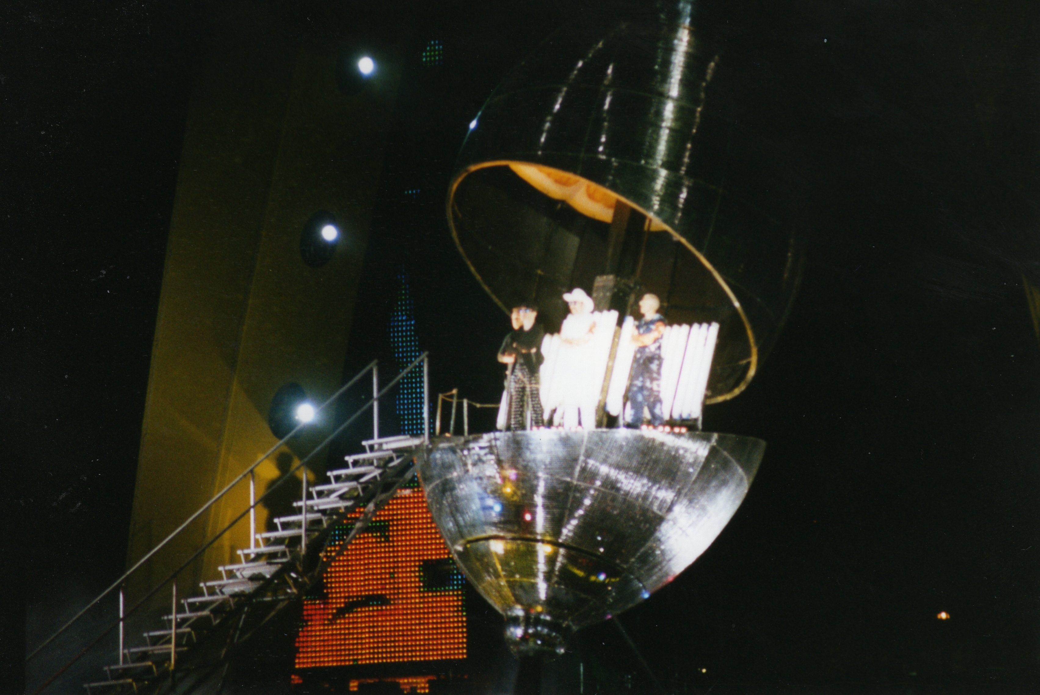 U2 PopMart Tour, Botanic Gardens, Belfast, Northern Ireland, August 1997